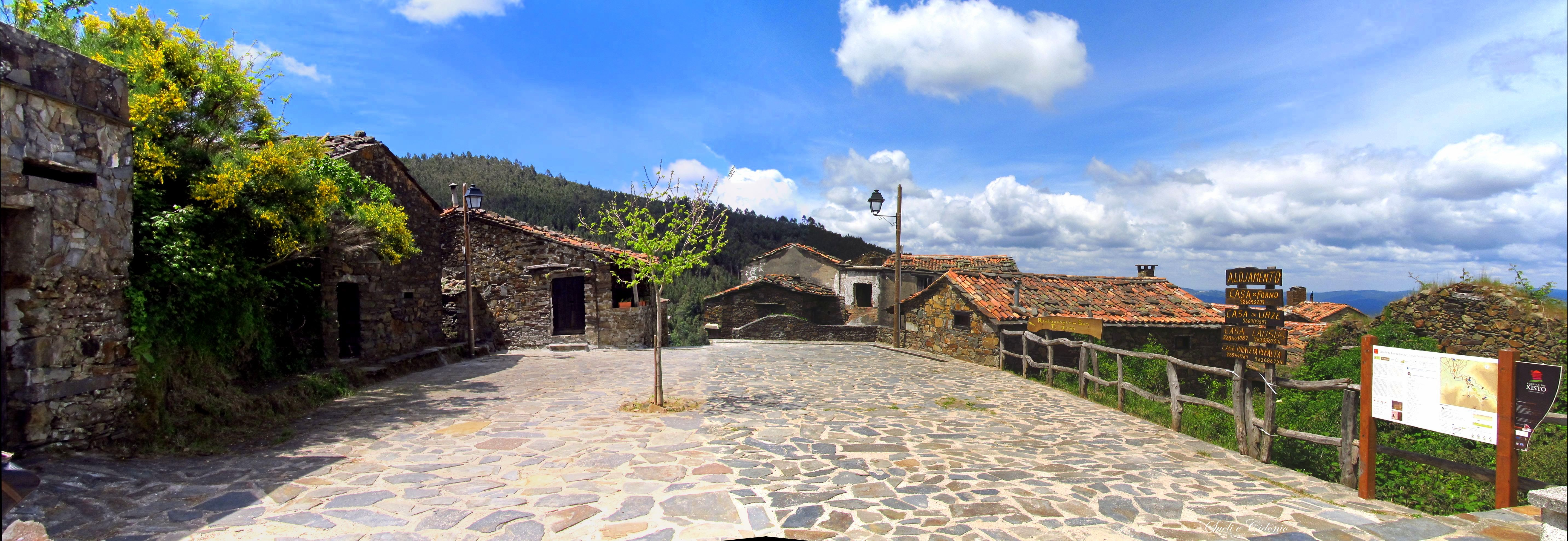 Village Shale - Talasnal - Lousã